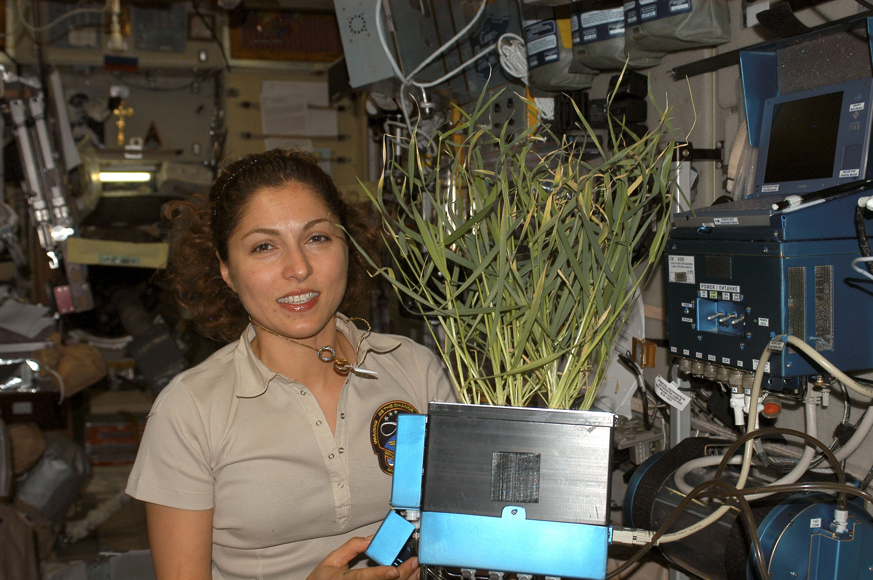 Spaceflight participant Anousheh Ansari holds a grass plant grown in the Zvezda Service Module of the International Space Station.